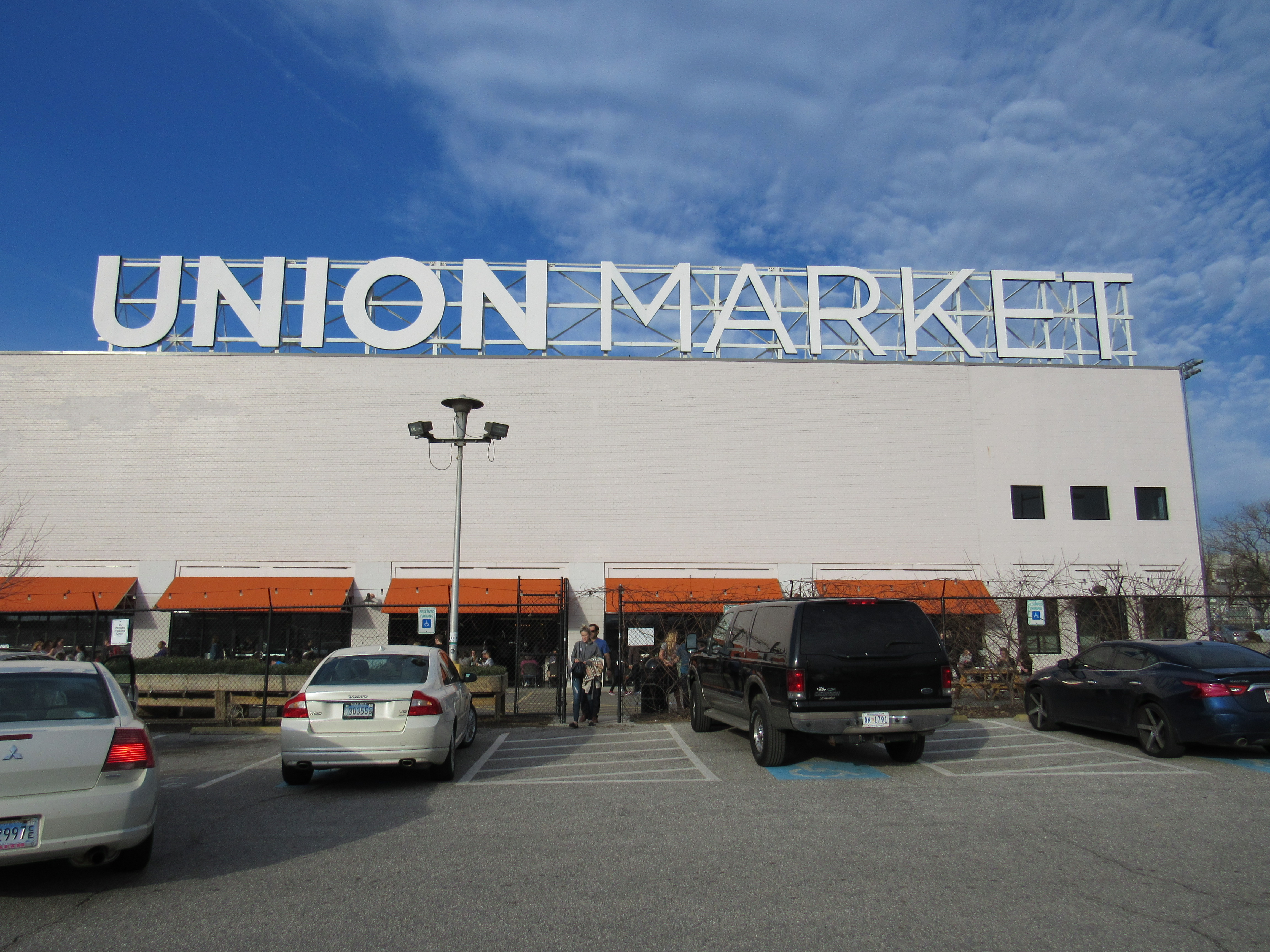 in Northeast Washington, D.C.